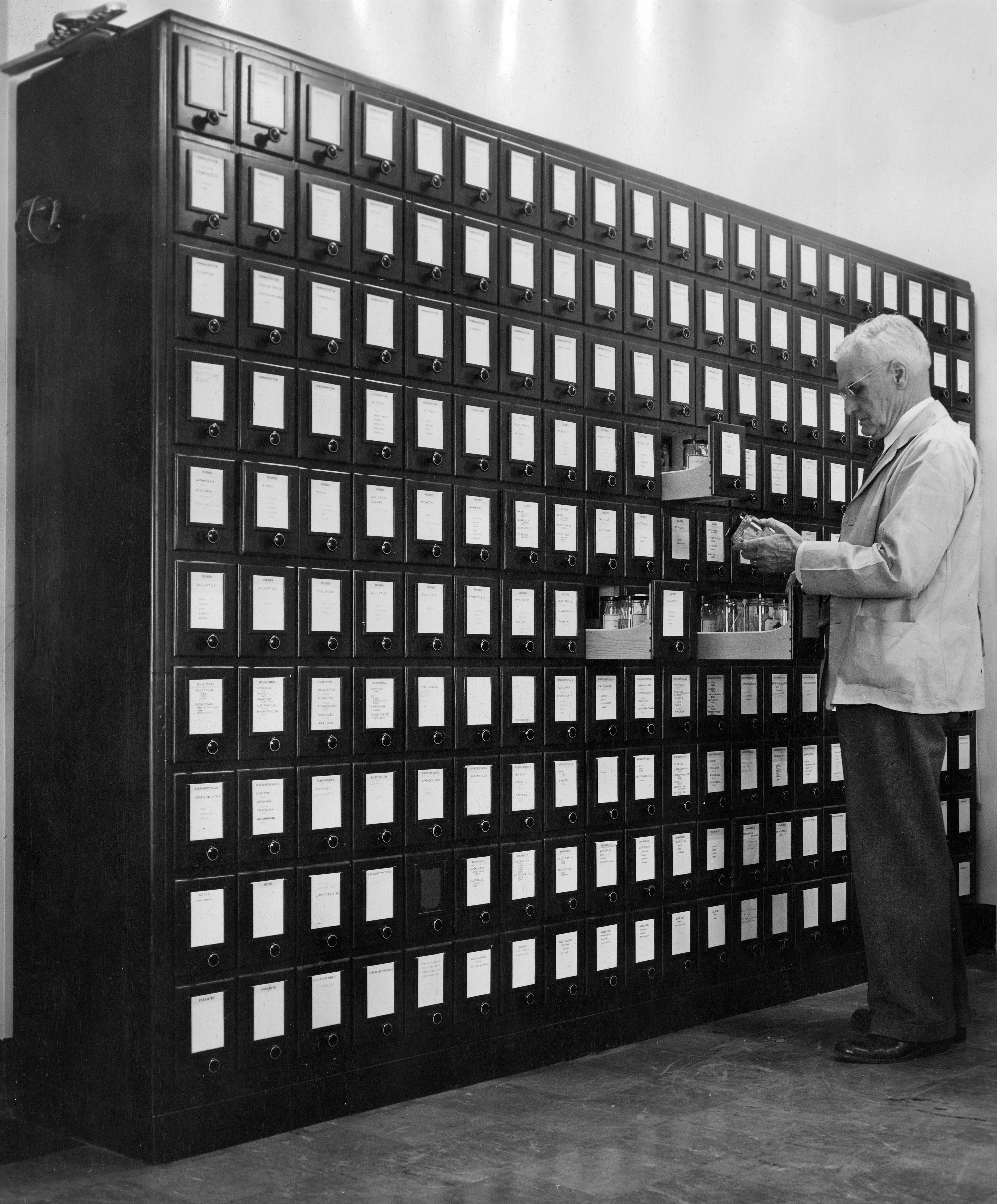 Rocky Mountain Laboratories, Hamilton, MA: Robert A. Cooley with tick collection, 1946